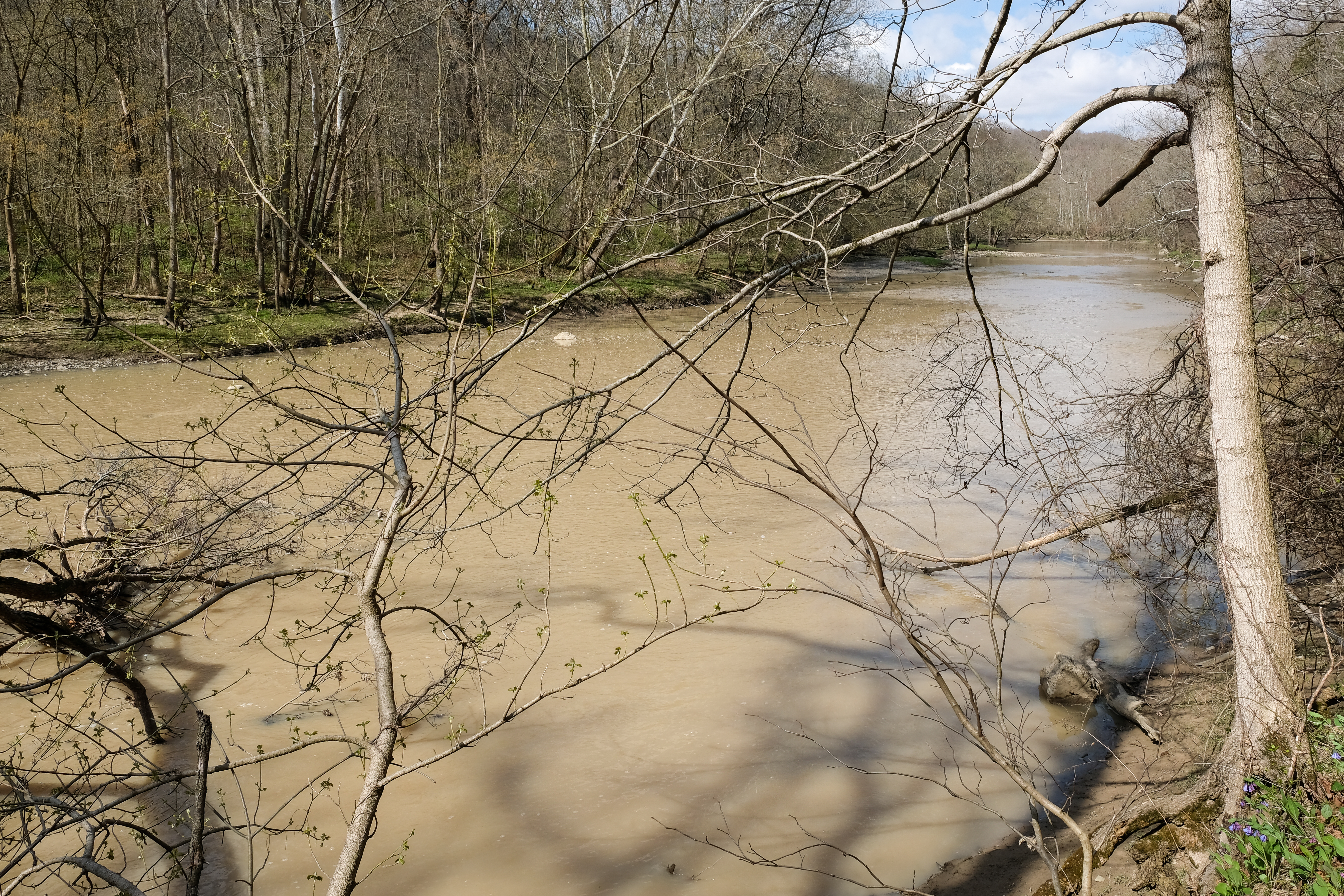 The Salamonie River as viewed from the Kokiwanee nature preserve owned by ACRES Land Trust, in Lagro Township, Wabash County, Indiana